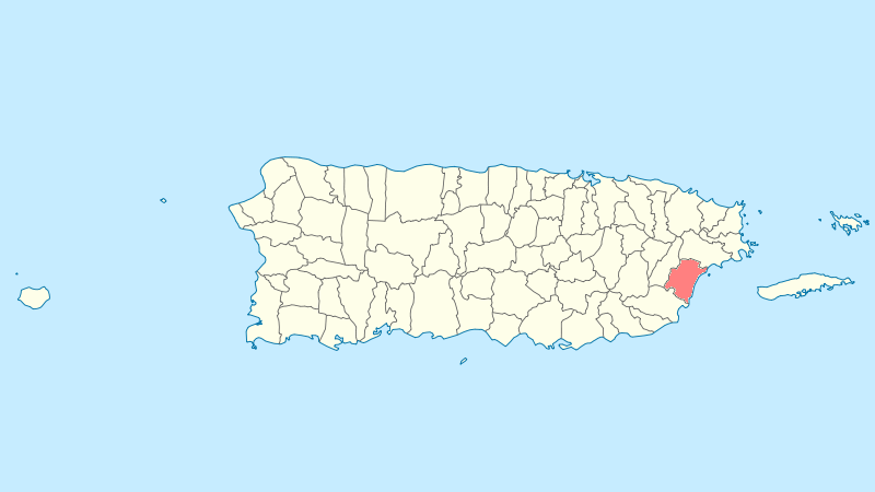 Municipal locator of Puerto Rico